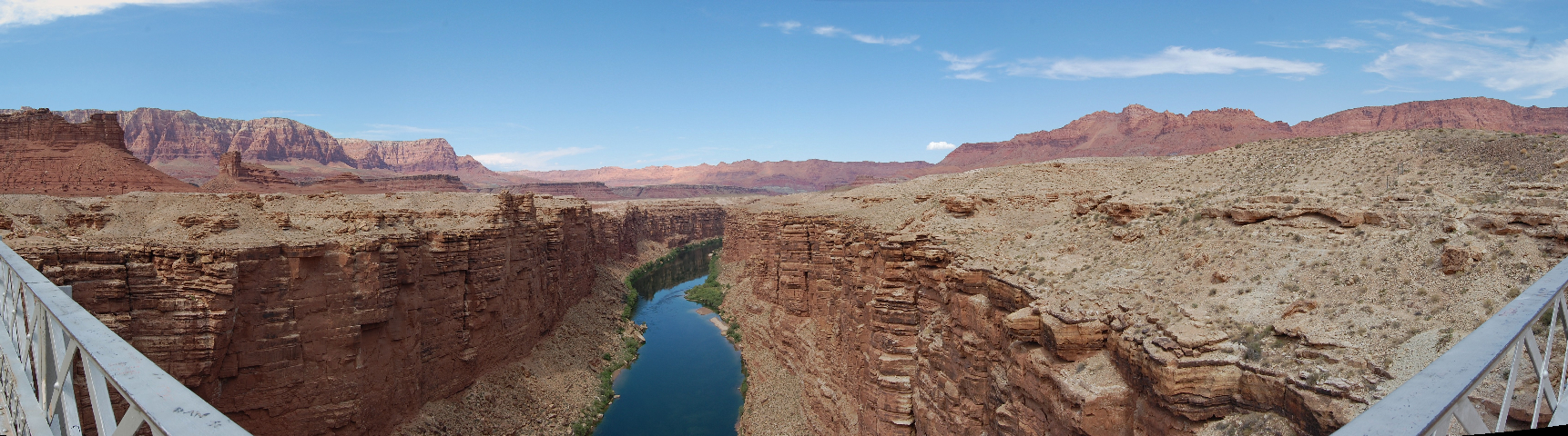 A panoramic view of the Colorado River flowing through Marble Canyon — taken from the Navajo Bridge, Arizona.